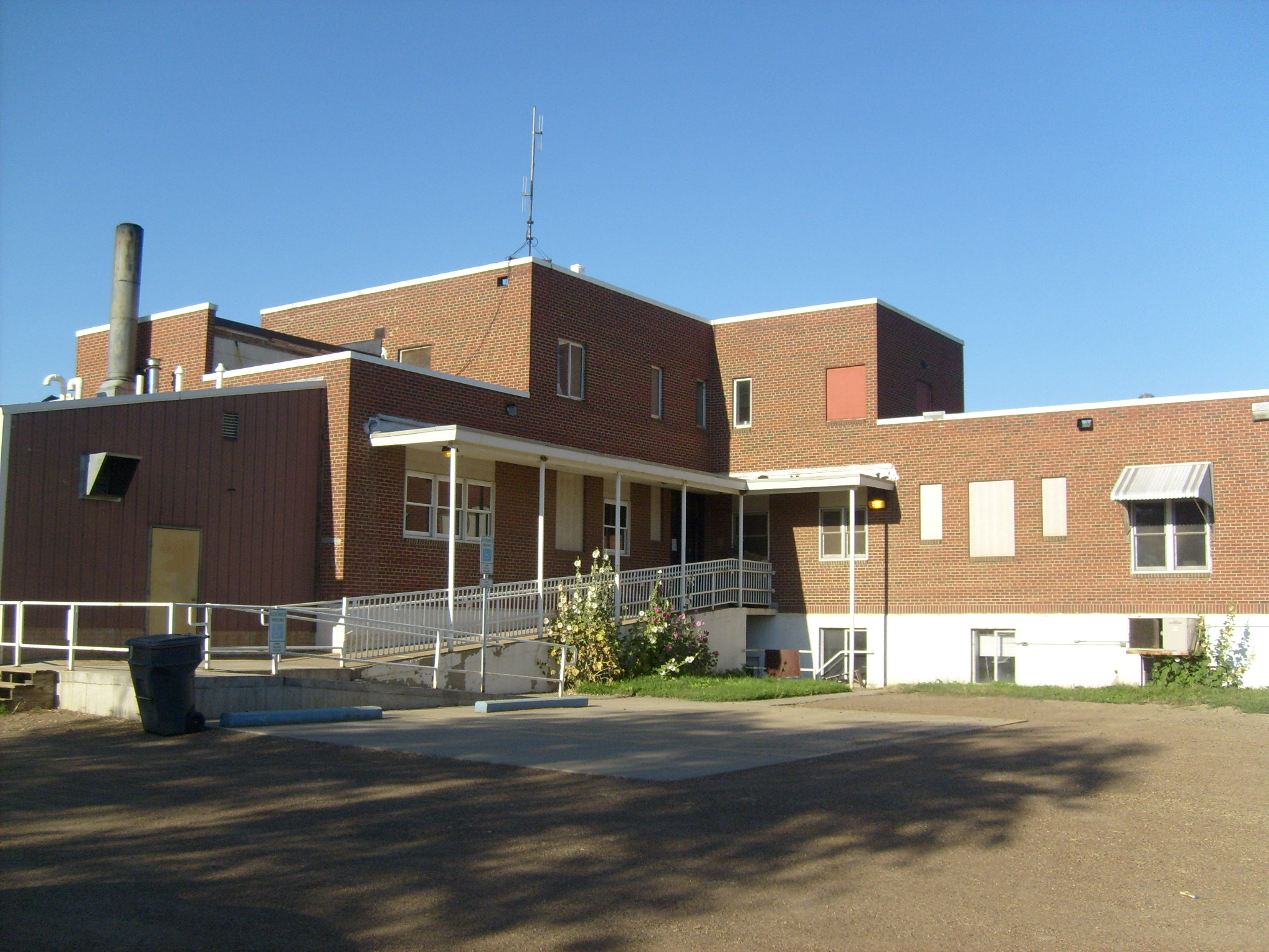 Jordan MT Fergus County Courthouse